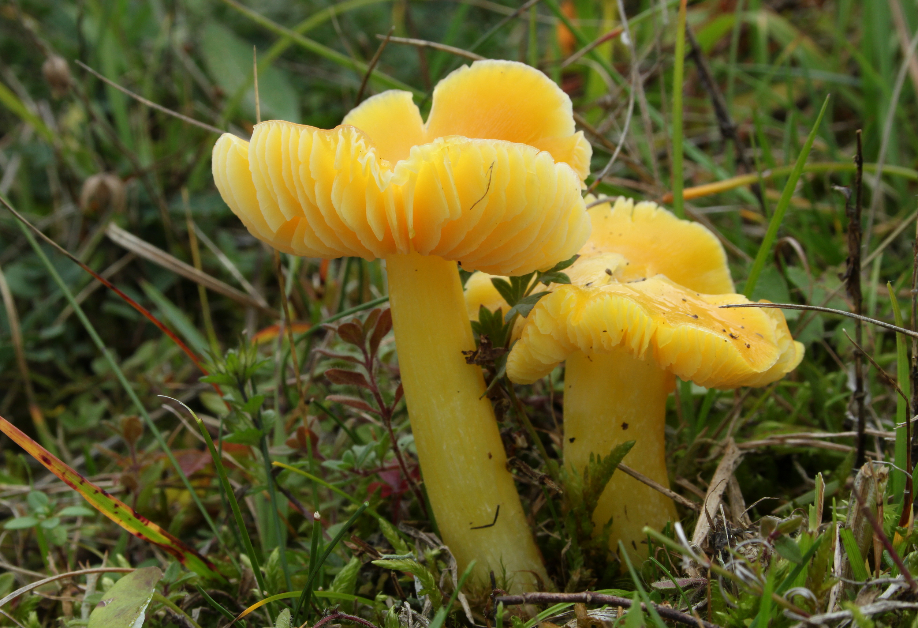 Golden Waxcap, Hygrocybe chlorophana, Family: Hygrophoraceae, Location: Germany, Schelklingen, Hausen